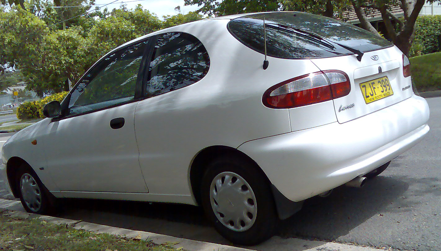 1997 Daewoo Lanos (T100) SE 3-door hatchback. Photographed in Gymea, New South Wales, Australia.